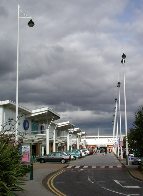 Kingswood Retail Park, Hull, East Riding of Yorkshire, England.Part of the large shopping complex off the A1033 east of the River Hull.